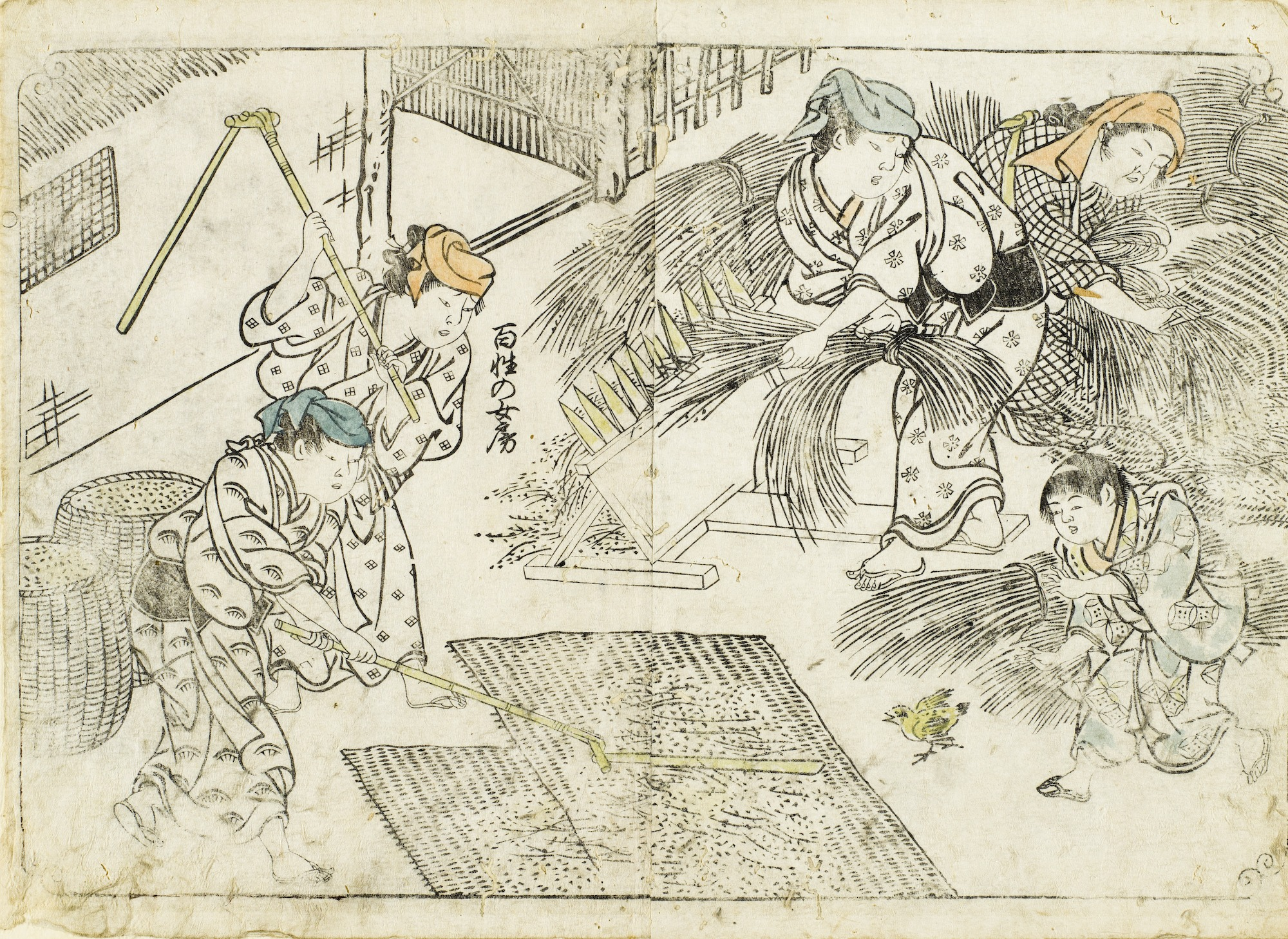 Japan, 1723 Prints; woodcuts Pair of hand-colored woodblock print pages from a book Image: 23.5 x 34.93 cm. (9 1/4 x 13 3/4 in); Sheet: 26.04 x 35.88 cm. (10 1/4 x 14 1/8 in) The Joan Elizabeth Tanney Bequest (M.2006.136.20a-b) Japanese Art